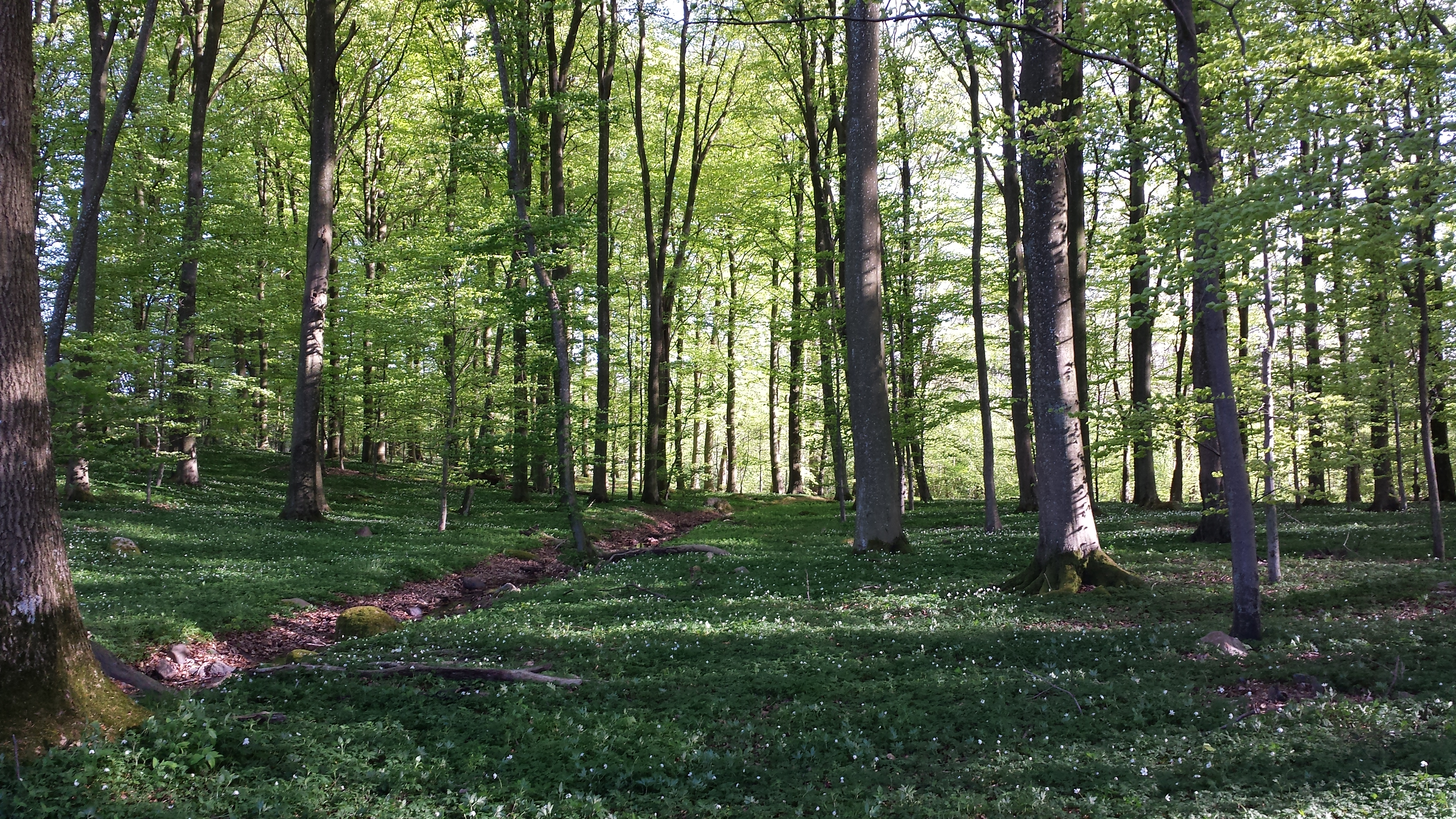 Dalby Norreskog Nature Reserve in Scania, Sweden. May 2015.